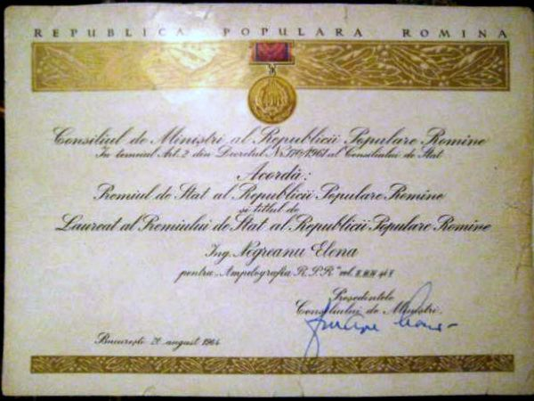 Brevet of the State Prize of the Romanian People's Republic, 1st class